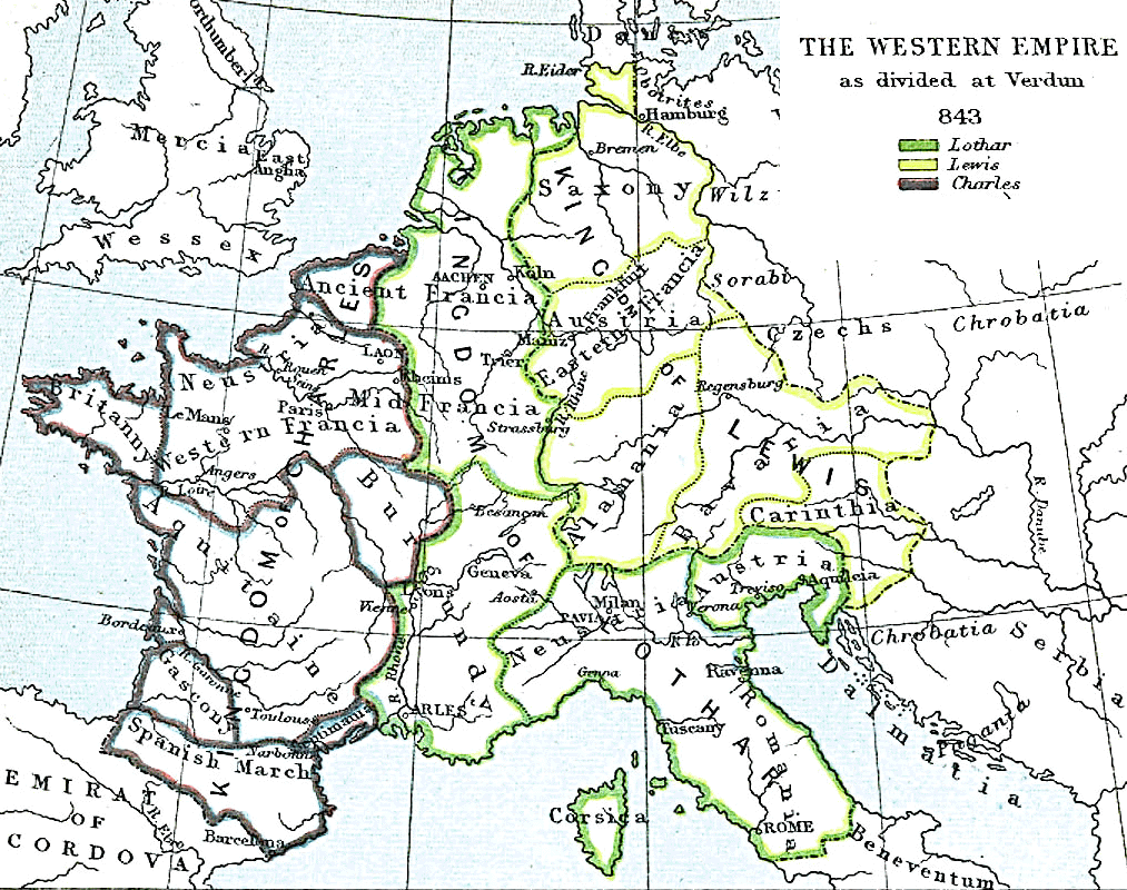 This map is from the Atlas to Freeman's Historical Geography, edited by J.B. Bury, Longmans Green and Co. Third Edition 1903. It is in the public domain and you may download it or print it for any use. The Frankish Empire after the Treaty of Verdun Lothar Louis II (also Ludwig or Lewis) "the German" Charles II the Bald